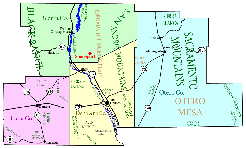 Simplistic map of south-central New Mexico, including Doña Ana, Luna, Otero, and Sierra counties, and the location of the proposed spaceport.